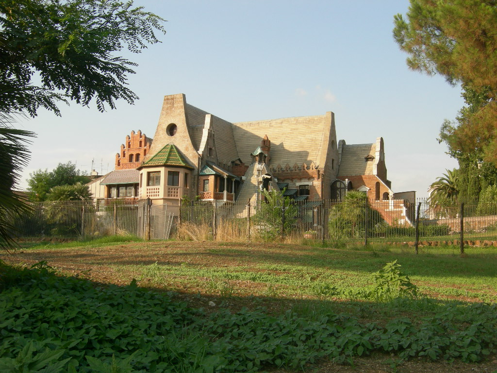 The Casina delle Civette, a building in Villa Torlonia, Rome.